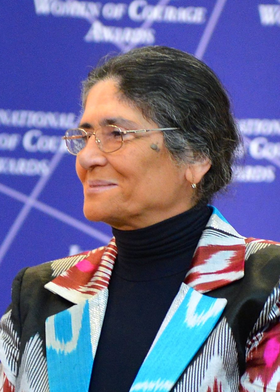 "Deputy Secretary Higginbottom and First Lady Michelle Obama recognized extraordinary women from around the globe with the Secretary of State’s International Women of Courage Award at a ceremony that took place on Tuesday, March 4, 2014, 11:30 a.m. at the Department of State."